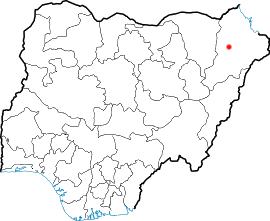 Maiduguri, Nigeria Location Map, Adapted from Locator Map Aba-Nigeria.png which was made by User:Civvi at Wikimedia Commons